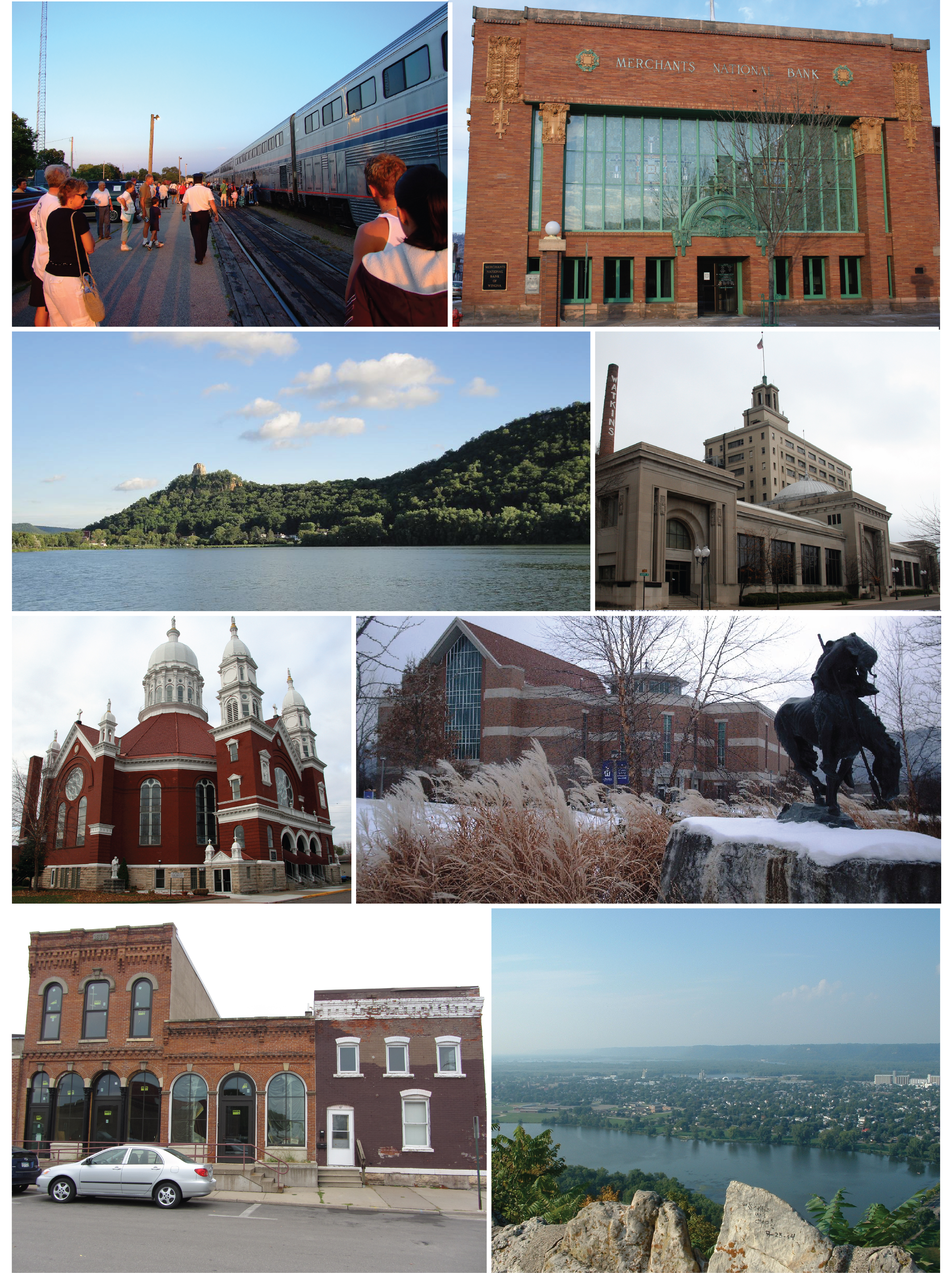 From top-left: the Empire Builder in Winona, Merchants National Bank building, Lake Winona and Sugar Loaf, Watkins Products, St. Stanislaus, Krueger Library at Winona State University, East Second Street Historic District, and a view of Winona from Garvin Heights City Park.